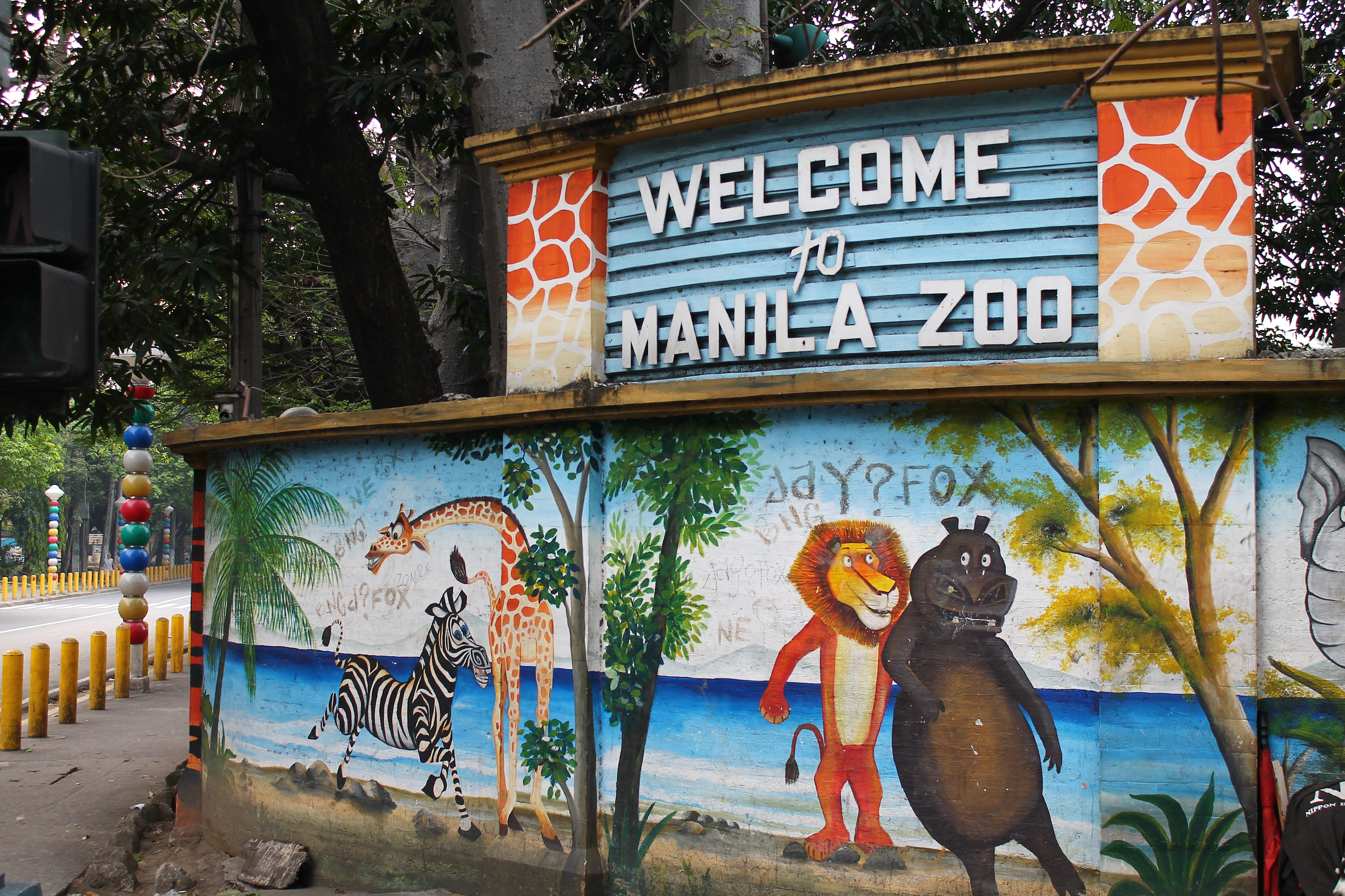 Manila Zoo, City of Manila